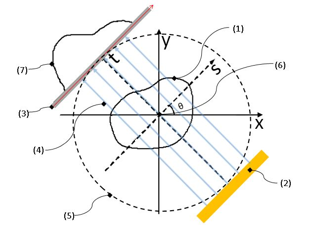 Principle of CT scanner: This figure indicates a schematic configuration of a CT scanner for the purpose of mathematical modeling and examination of the principle of tomography utilizing the parallel beam irradiation optical system. The numbers in the figure (see the numbers within the parentheses) respectively indicate: (1) = an object; (2) = the parallel beam light source; (3) = the screen; (4) = transmission beam; (5) = the datum circle; (6) = the origin; and (7) = a fluoroscopic image (a one-dimensional image; p (s, θ)). Two datum coordinate systems xy and ts are also imagined in order to explain the positional relations and movements of features (0) - (7) in the figure. In addition, a virtual circle centered at the abovementioned origin (6) is set on the datum plane (it will be called “the datum circle” henceforth). This datum circle (6) will be represents the orbit of the parallel beam irradiation optical system.